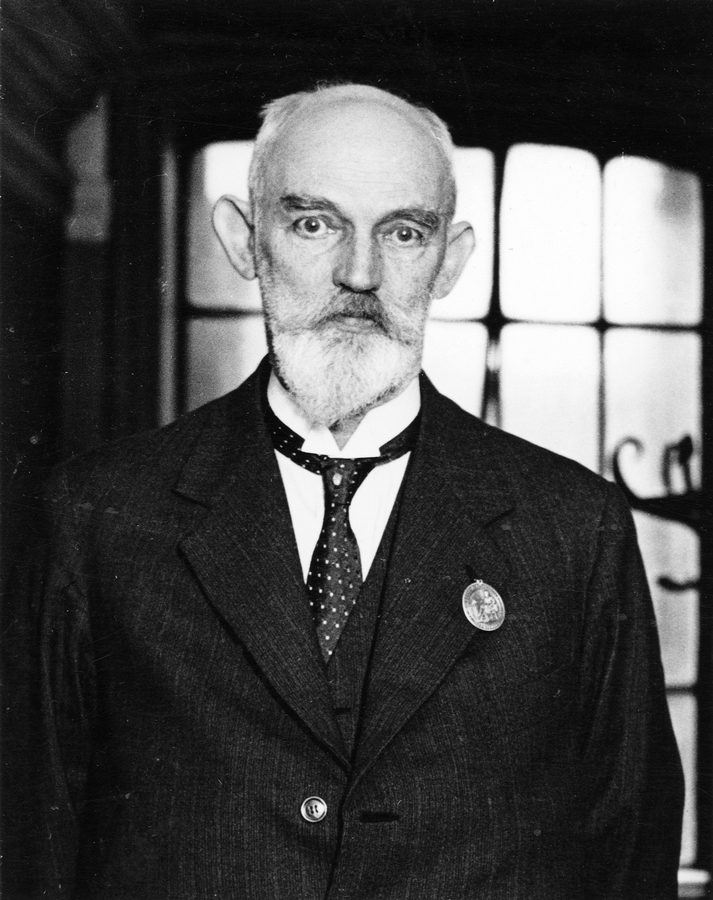 Willem de Sitter, astronomer